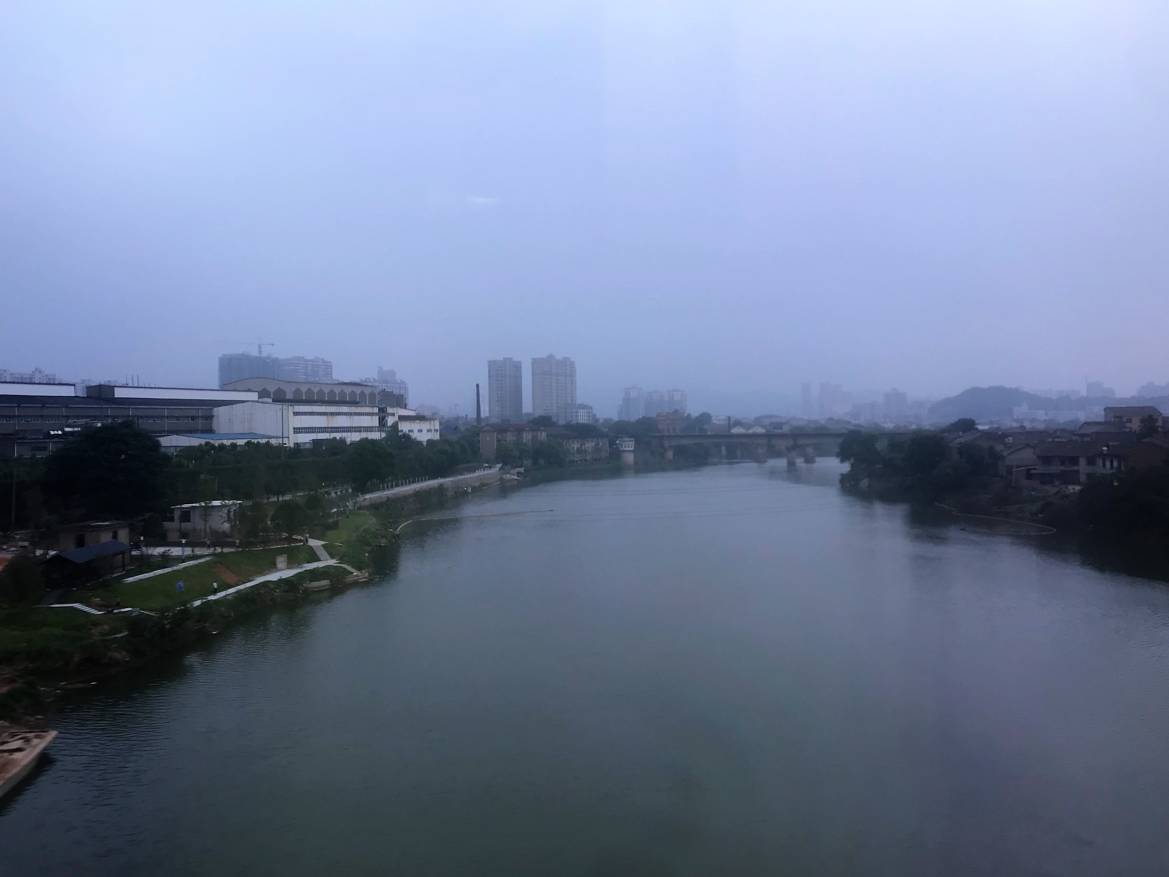 Can see the Liling-Chaling Railway